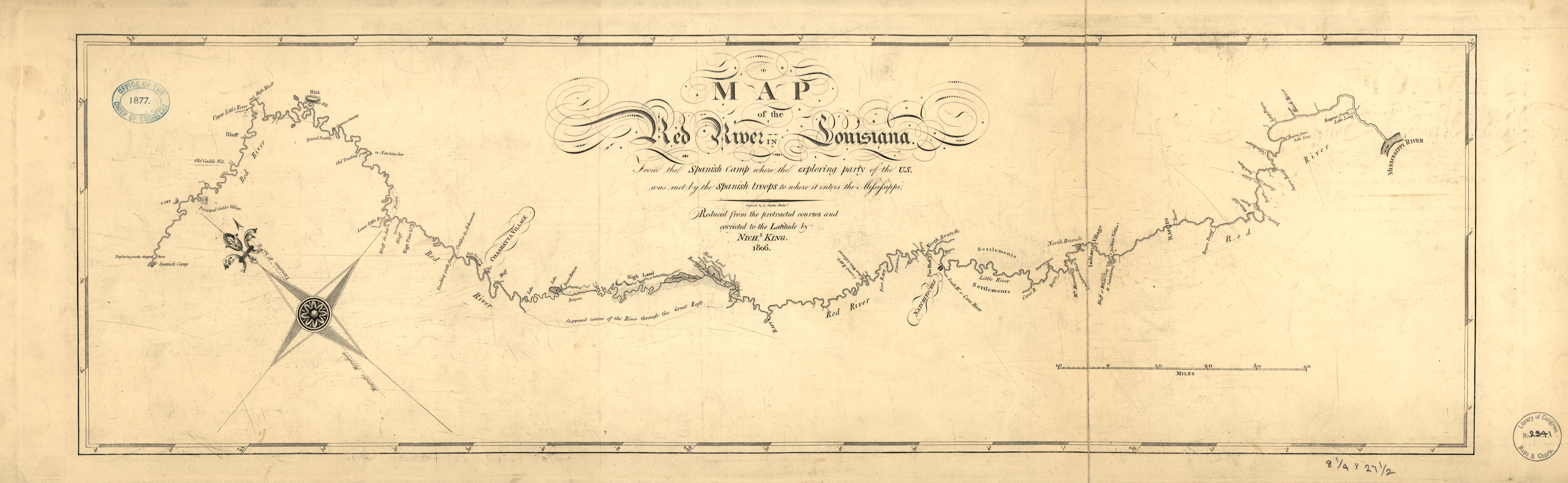 Map of the 1806 Red River Expedition. Published Nich. King in 1806. Copy is from the Library of Congress site.[1] Sorry it's so large but it's not really legible much smaller.